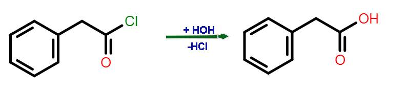 Phenylacetic acid synthesis Phenylacetyl chloride and water